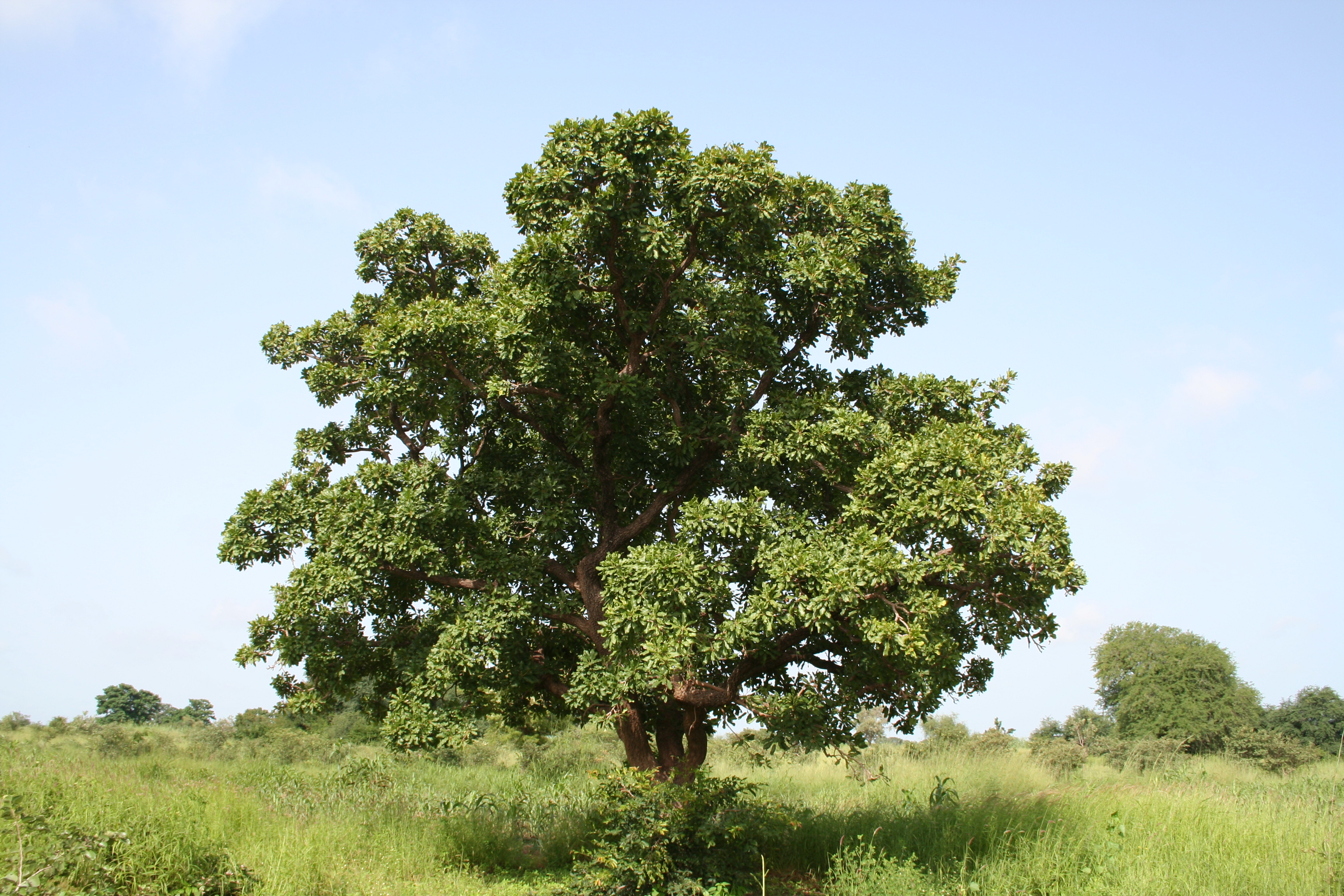 Vitellaria paradoxa (shea tree, karité), eastern Burkina Faso